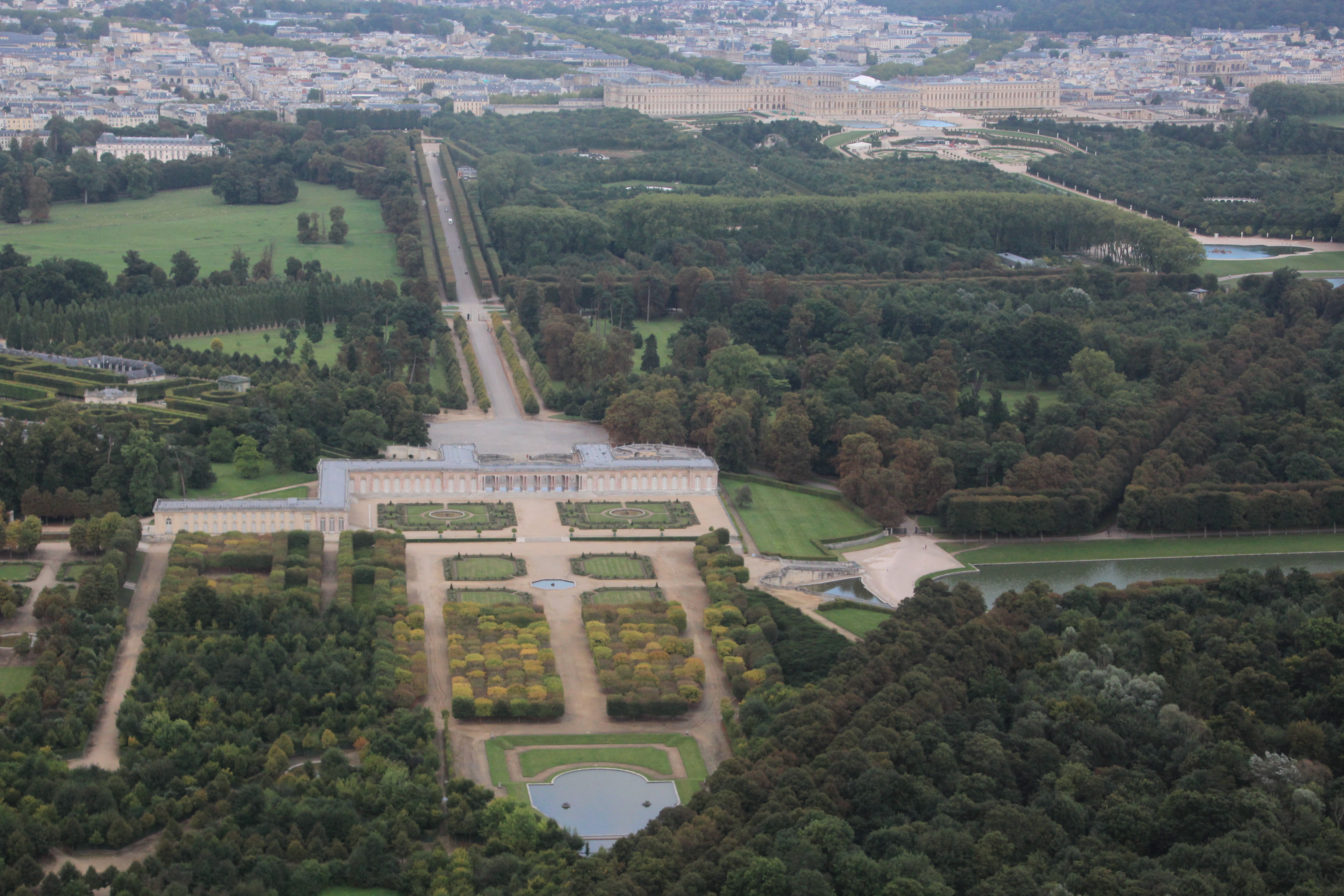 Aerial view of the Grand Trianon in the Palace of Versailles, France.